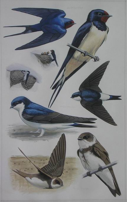 The swallows and martins are a group of passerine birds in the family Hirundinidae.